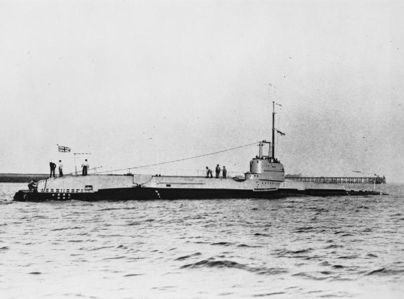 British S class submarine HMSM SHARK secured to a buoy in the Medway.